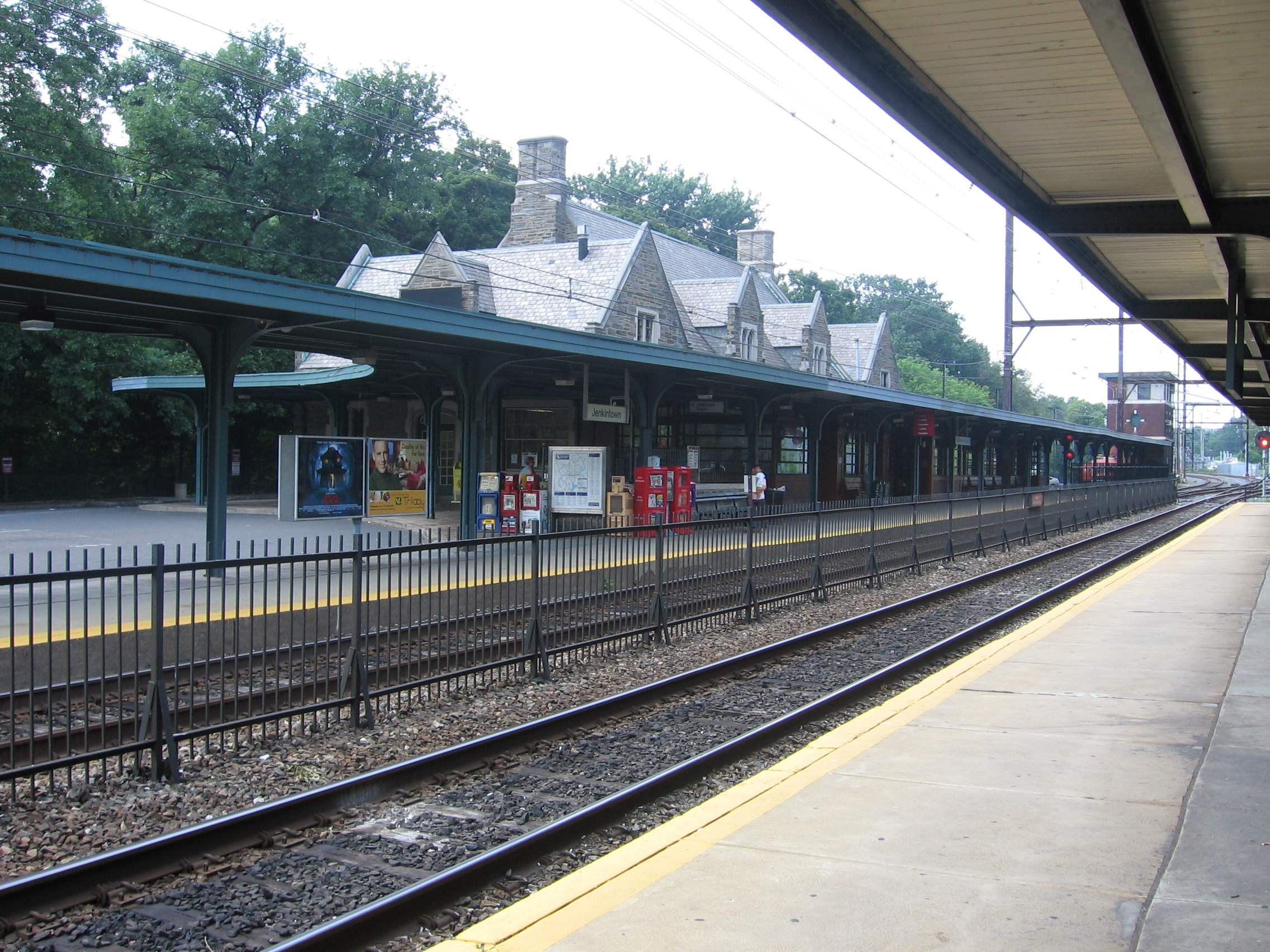 Platforms at Jenkintown Station, taken from outbound platform.